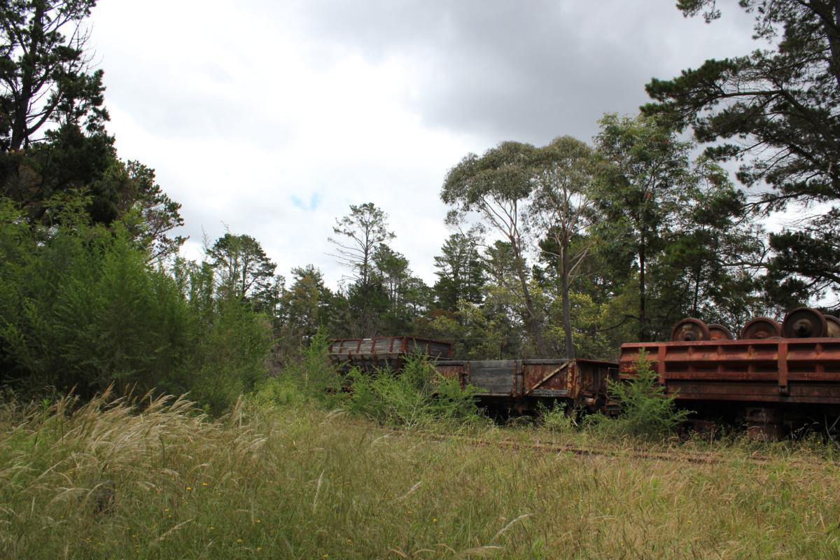 Abandoned and disused wagons on the former site